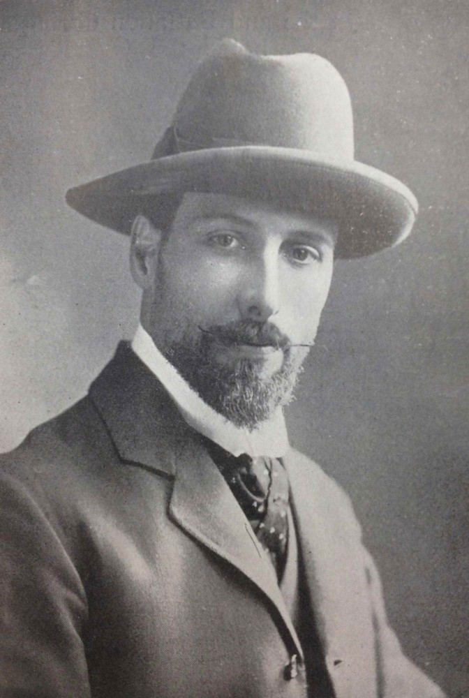 Portrait Photograph